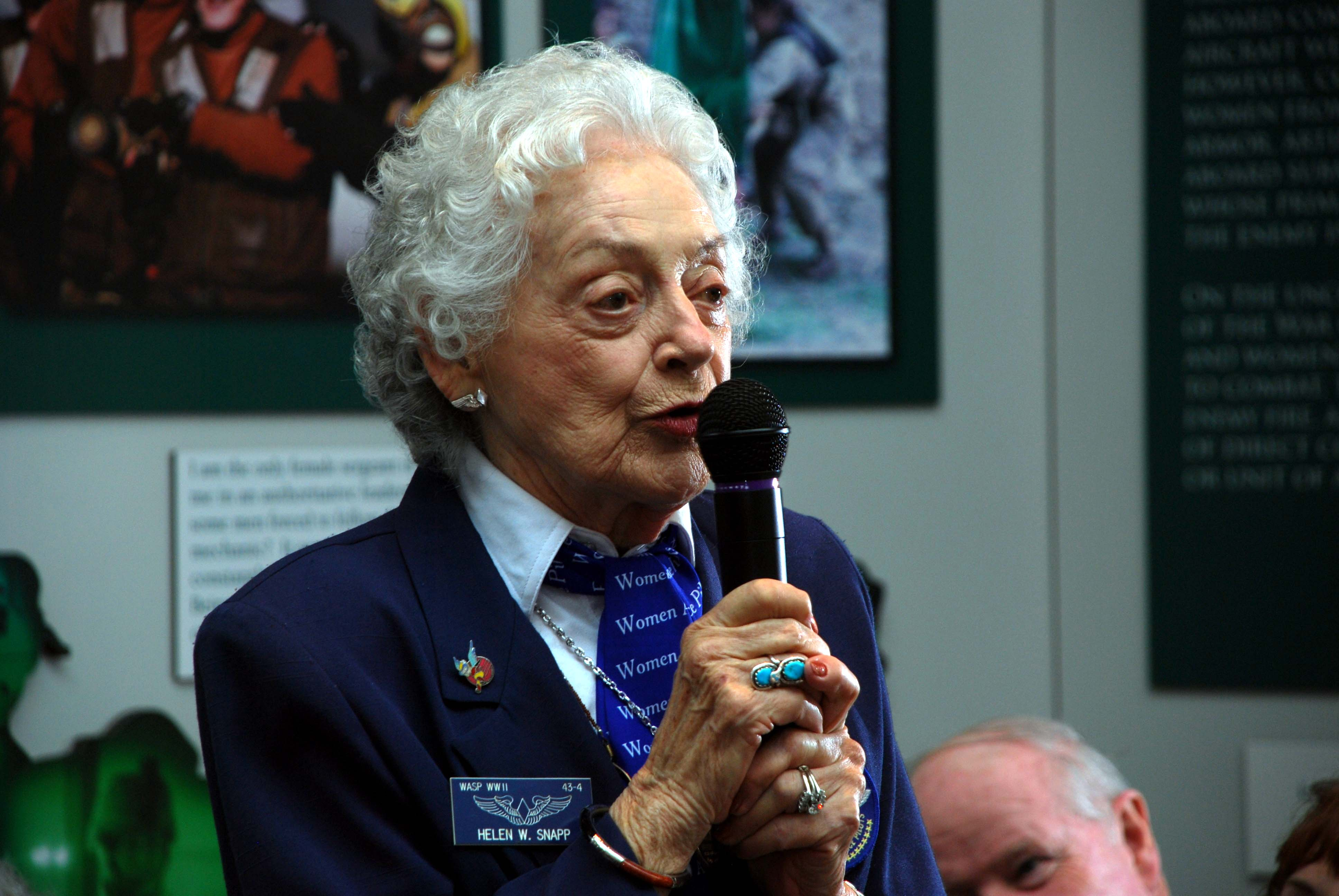 Helen Wyatt Snapp tells the more than 100 visitors gathered at the Women in Military Service for America memorial for the unveiling of the Woman Air Force Service Pilot exhibit that she, "Loved every minute," of being a WASP. Snapp graduated from the fourth WASP class of 1943, and was subsequently assigned to the New Castle Army Air Base, De and Camp Davis Army Air Field, NC. The WASP exhibit at the WIMSA memorial is the first of its kind in the country and will be on display through Nov. 2009.